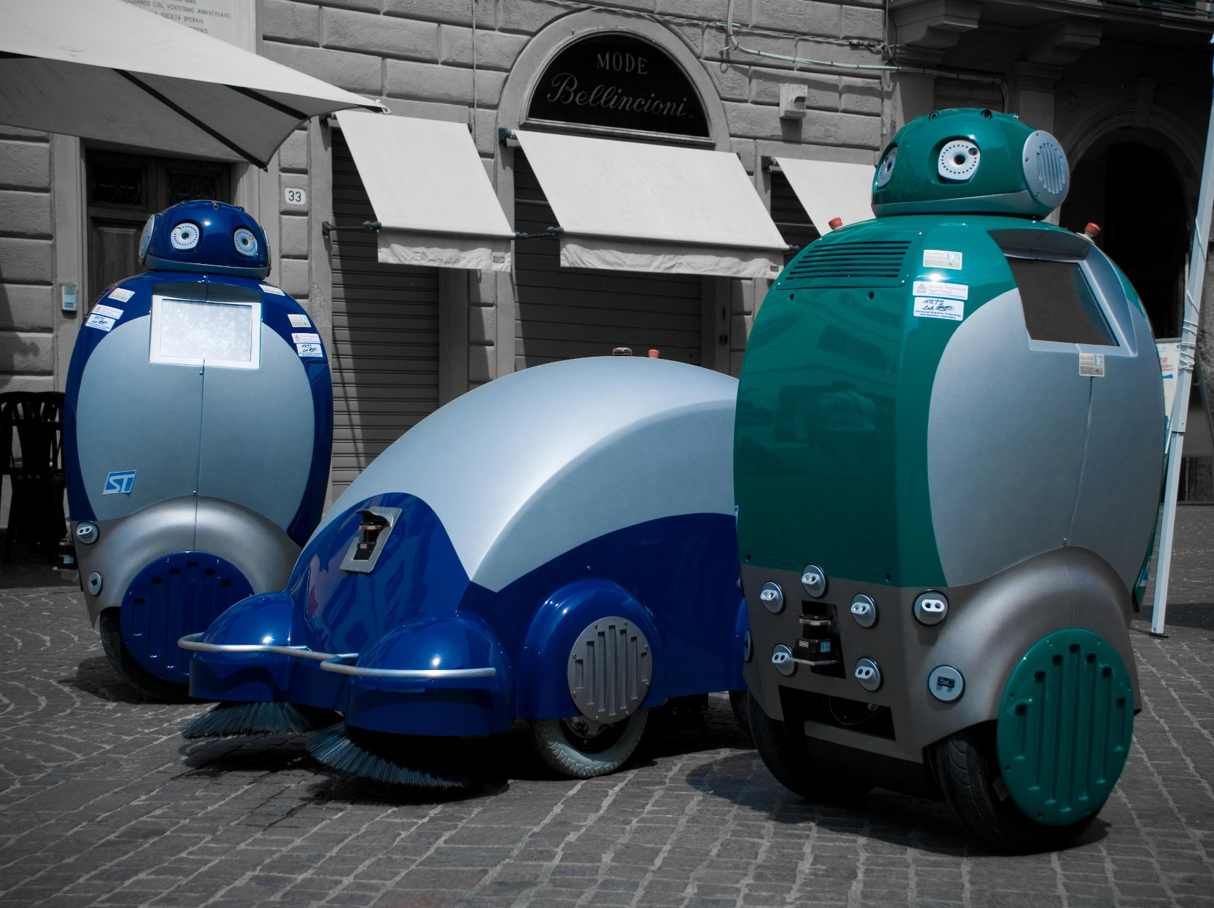 Picture of the three robots (two of DustCart and one of DustClean type) that form the demonstrated Dustbot system.